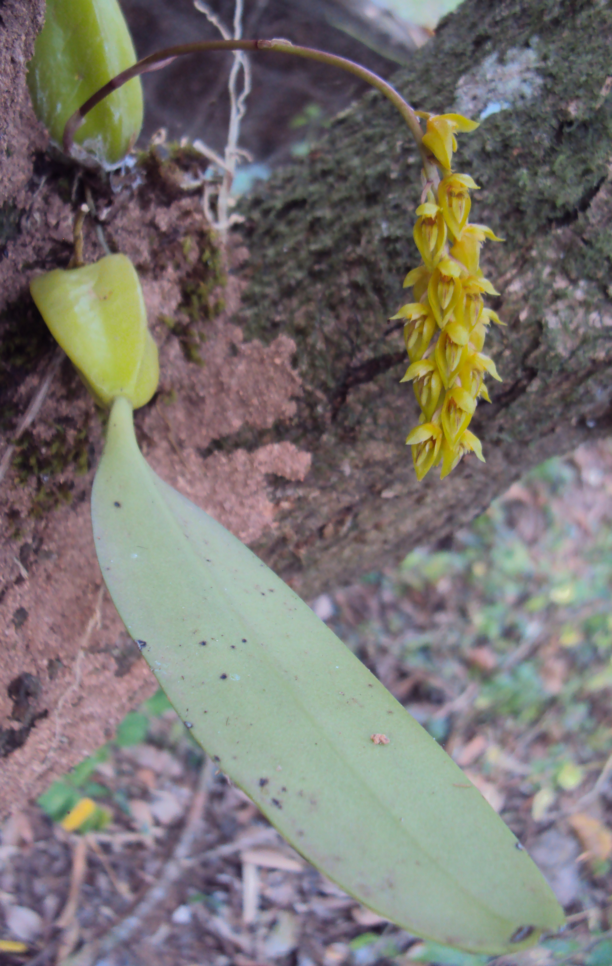 Bulbophyllum sterile